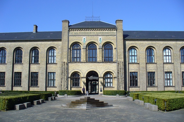 Main building of the Frederiksberg Campus (Faculty of Life Sciences)